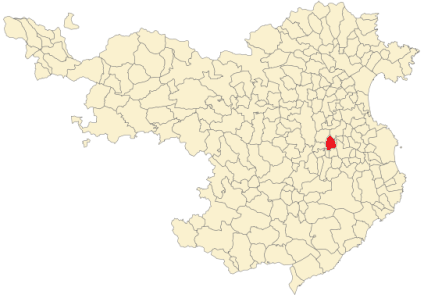 Sant Jordi Desvalls